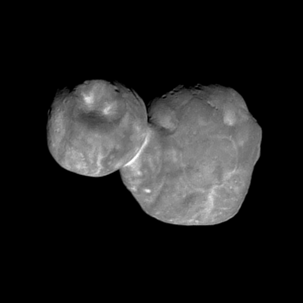 This image, obtained with the wide-angle Multicolor Visible Imaging Camera (MVIC) component of New Horizonss RALPH instrument, was taken on 1 January 2019 5:26, 7 minutes before closest approach, from a distance of 6,700 km. The image has an original resolution of 440 feet (135 meters) per pixel.